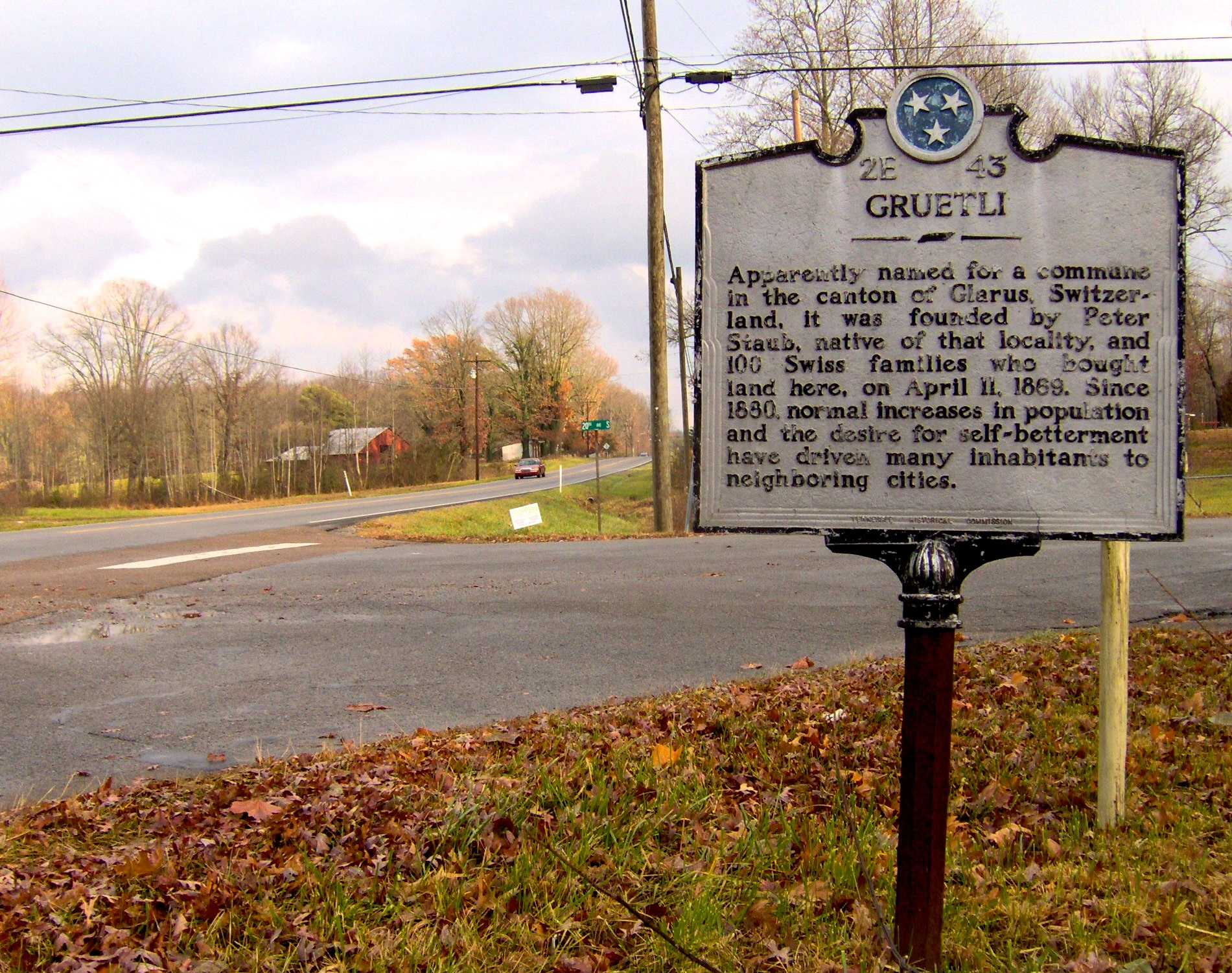 Tennessee Historical Commission marker on TN-108 recalling the establishment of the Swiss colony of Gruetli in modern Gruetli-Laager, Tennessee, in the southeastern United States.